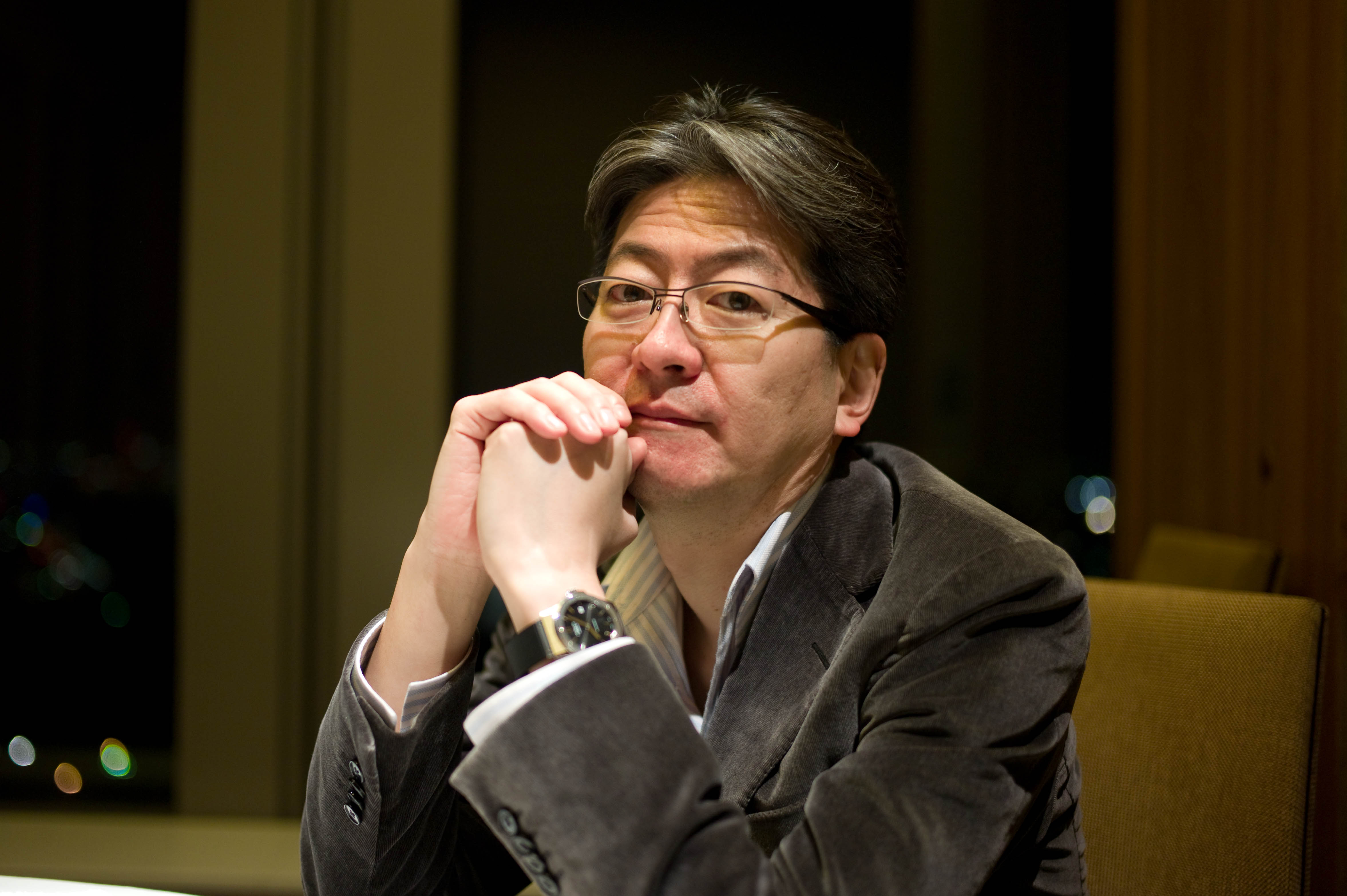 Ōki Matsumoto, President and Chief executive officer of the Monex Group, Inc., pose for photos in Tōkyō Metropolis on January 24, 2010.